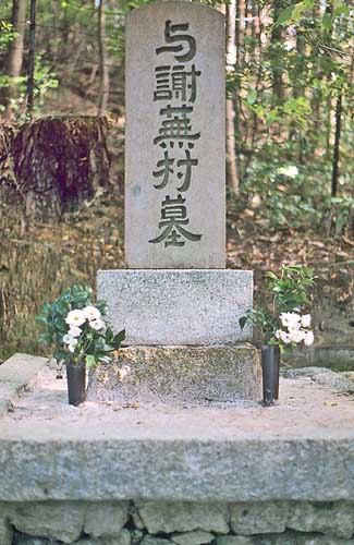 Grave of YosaBuson (与謝蕪村墓)